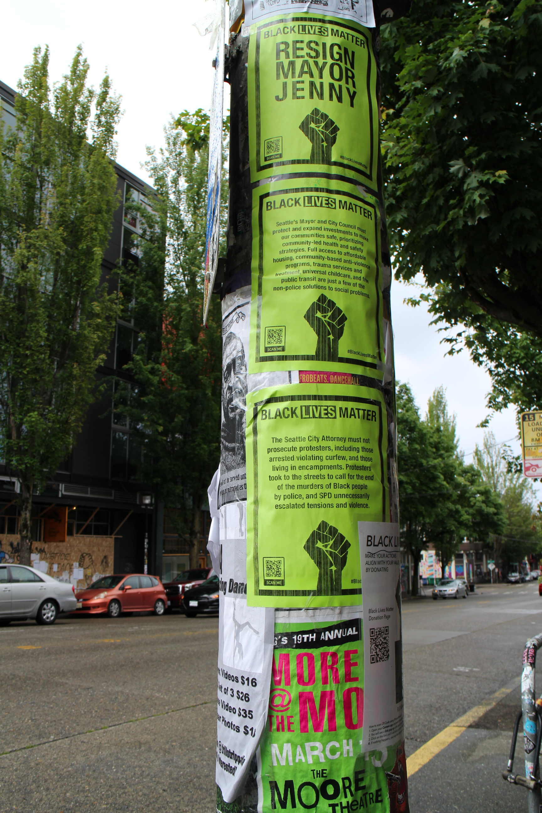 "Capitol Hill Autonomous Zone" area during the George Floyd protests in Seattle, Washington